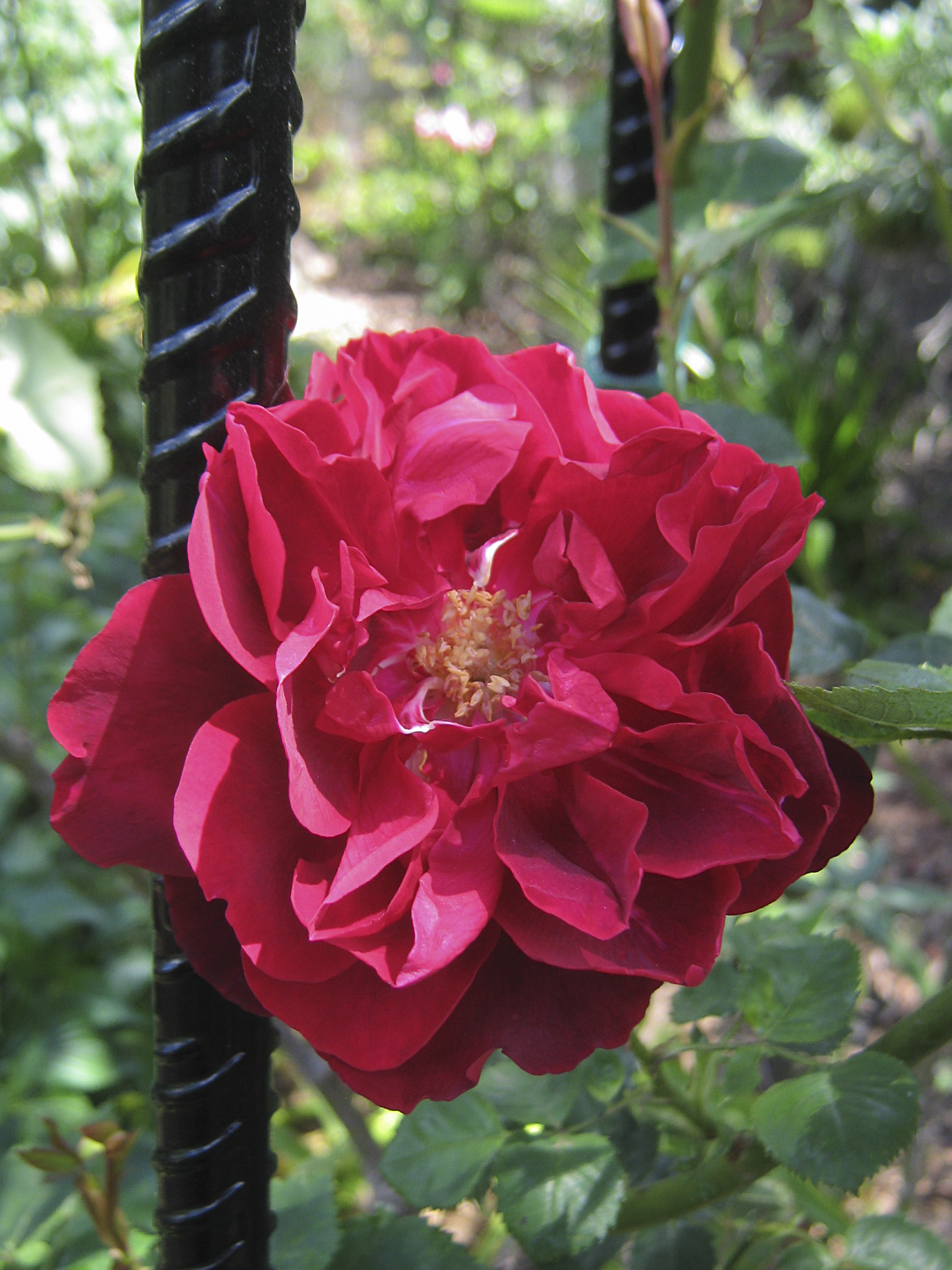 Rose 'Black Boy' Hybrid Tea climber by Alister Clark 1919; photographed in the Alister Clark Memorial Rose Garden, Bulla, Victoria